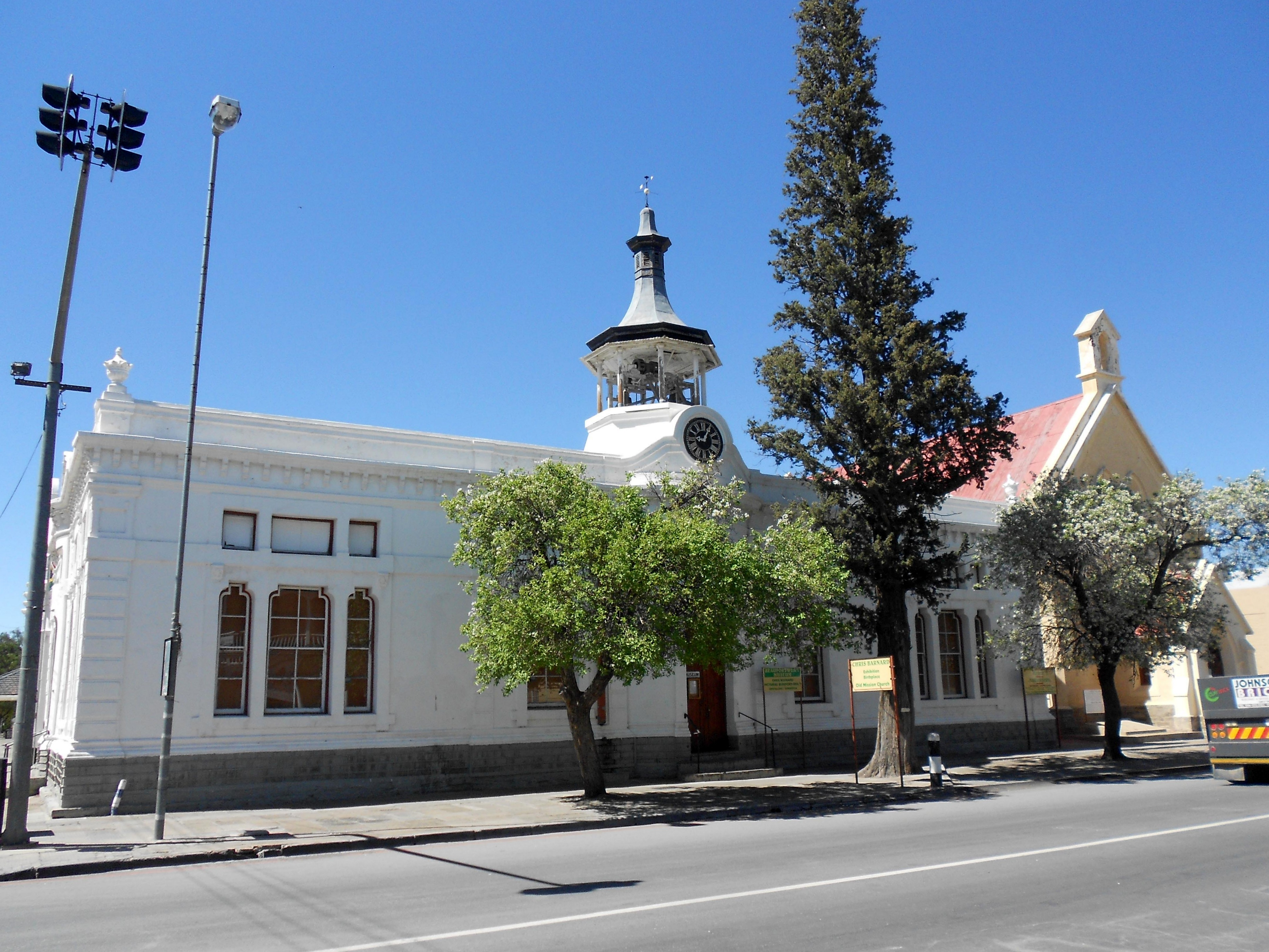 Old Town Hall, Donkin Street, Beaufort West This media shows a South African Protected Site with SAHRA file reference 9/2/010/0003.